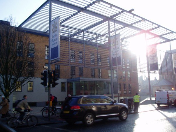 Rush hour in front of the Anglia Ruskin University's Cambridge Campus main entrance - the Helmore building.